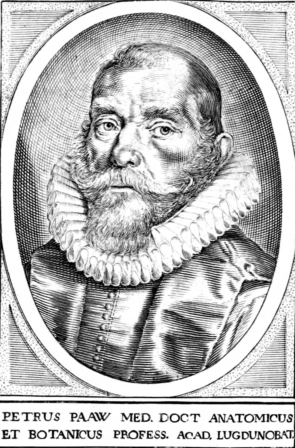 Petrus Paaw (born 1564, died 1617), a Dutch botanist and anatomist. This picture was used in his work Succenturiatus Anatomicus, continens Commentaria in Hippocratem de Capitis Vulneribus. Additæ sunt Annotationes in aliquot Capita Libri octavi C. Celsi, which was published in 1616 and is now available in the digital collection of the Bayerische StaatBibliothek here. The same picture can also be seen here, on the website of the Bibliothèque Interuniversitaire de Médecine of Paris.